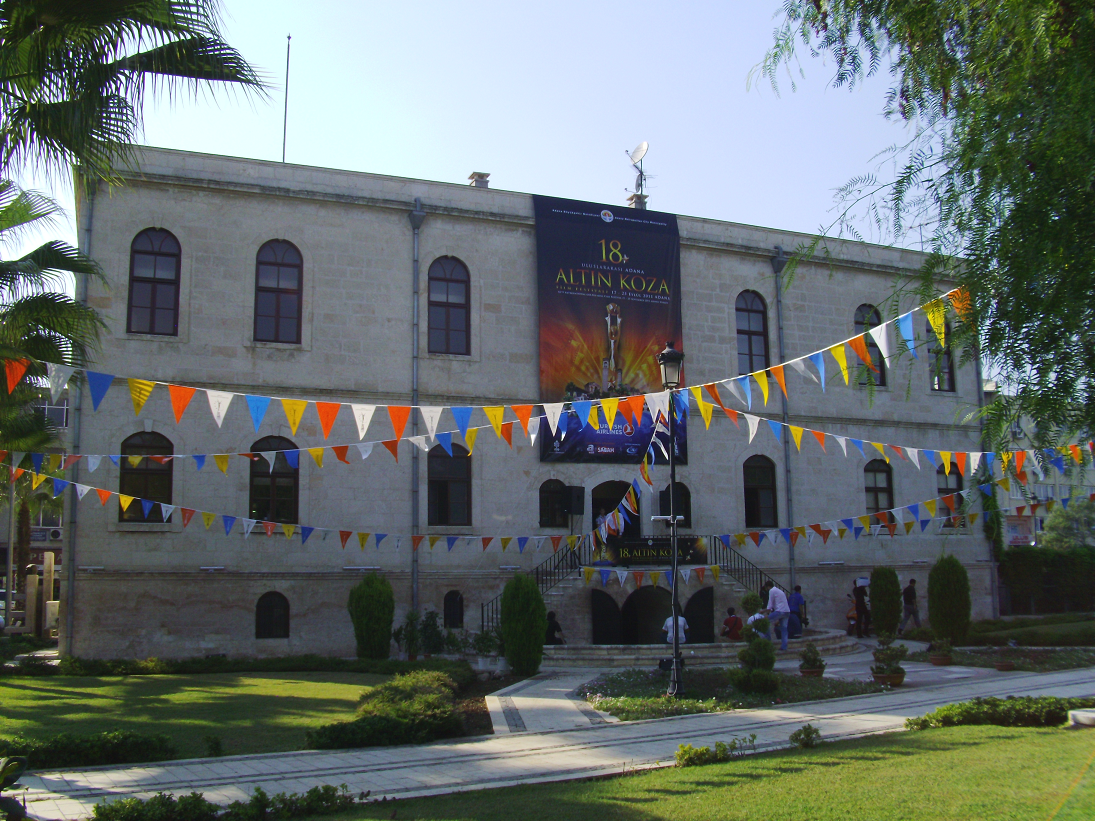 Adana Center for Arts and Culture during Altın Koza Festival